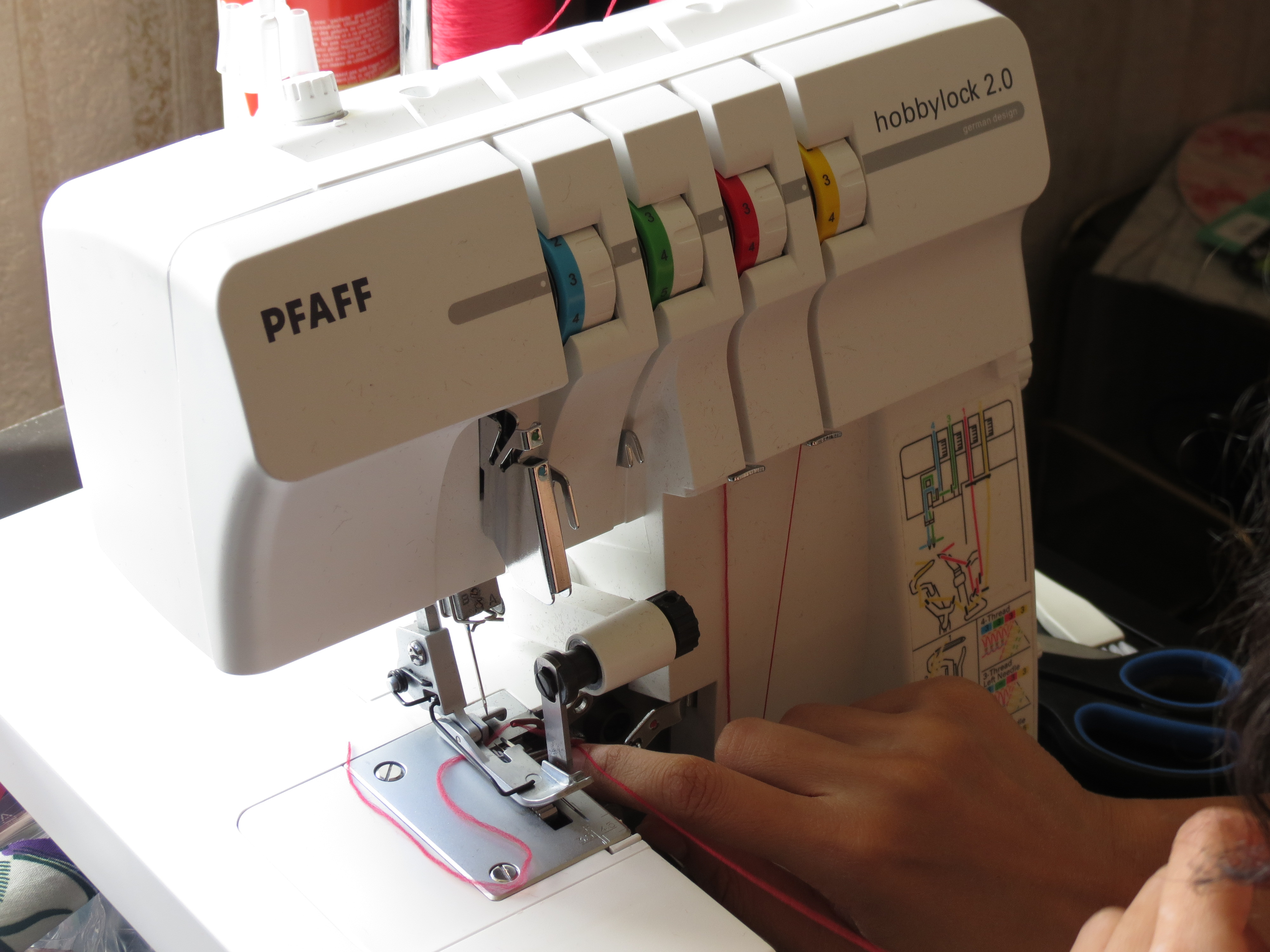 Overlock sewing machine